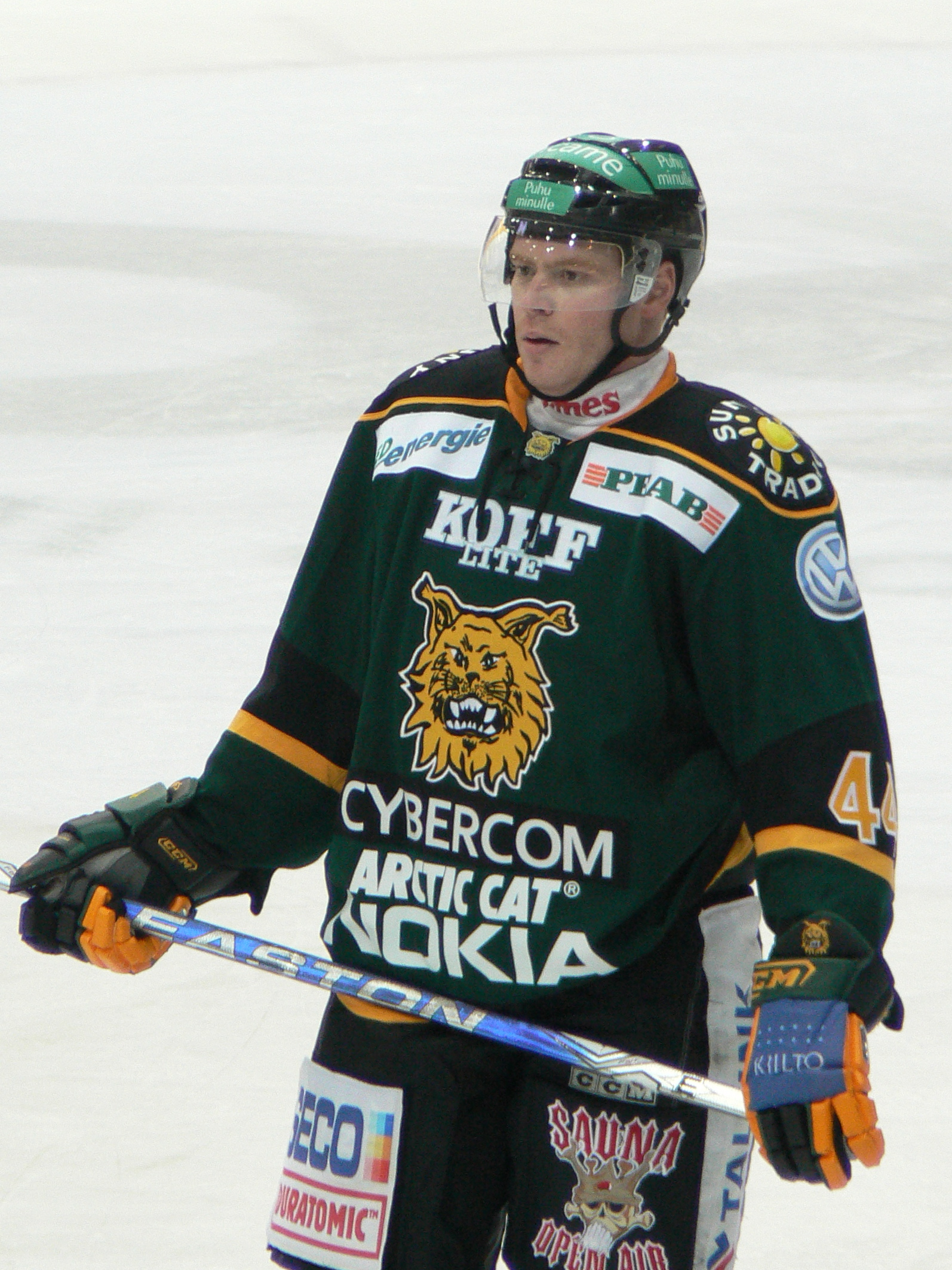 Canadian ice hockey forward Junior Lessard playing for Tampere Ilves in October, 2009.